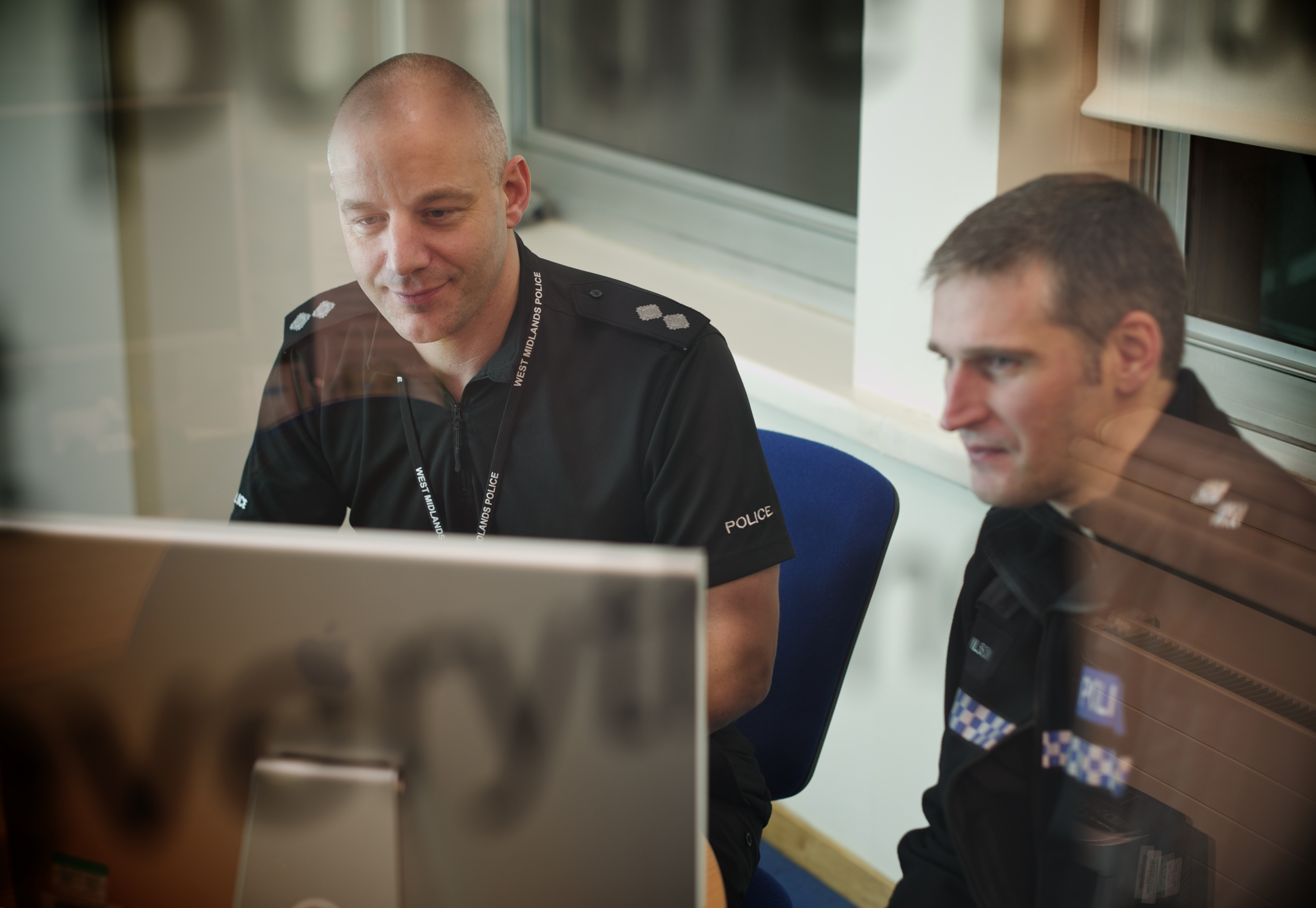 Inspector Darren Wilson and Inspector Keith Portman held an online web chat to the community of Solihull.